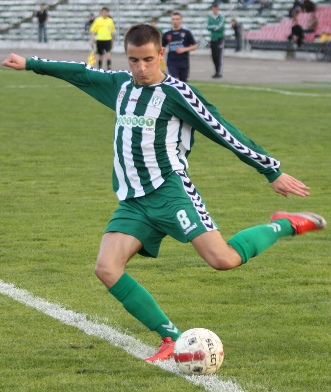 Egidijus Vaitkūnas playing for Žalgiris Vilnius.